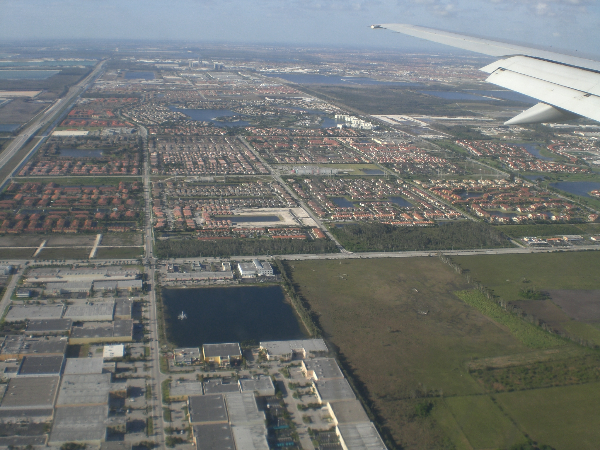 Aerial view of western Doral. Florida's Turnpike is visible in the upper left and one of the few remaining cow pastures in the Miami area is in the lower right. Western Doral from jet window. 4/1/2007.